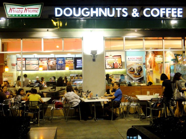 Krispy Kreme branch in Bonifacio High Street, Taguig, Philippines